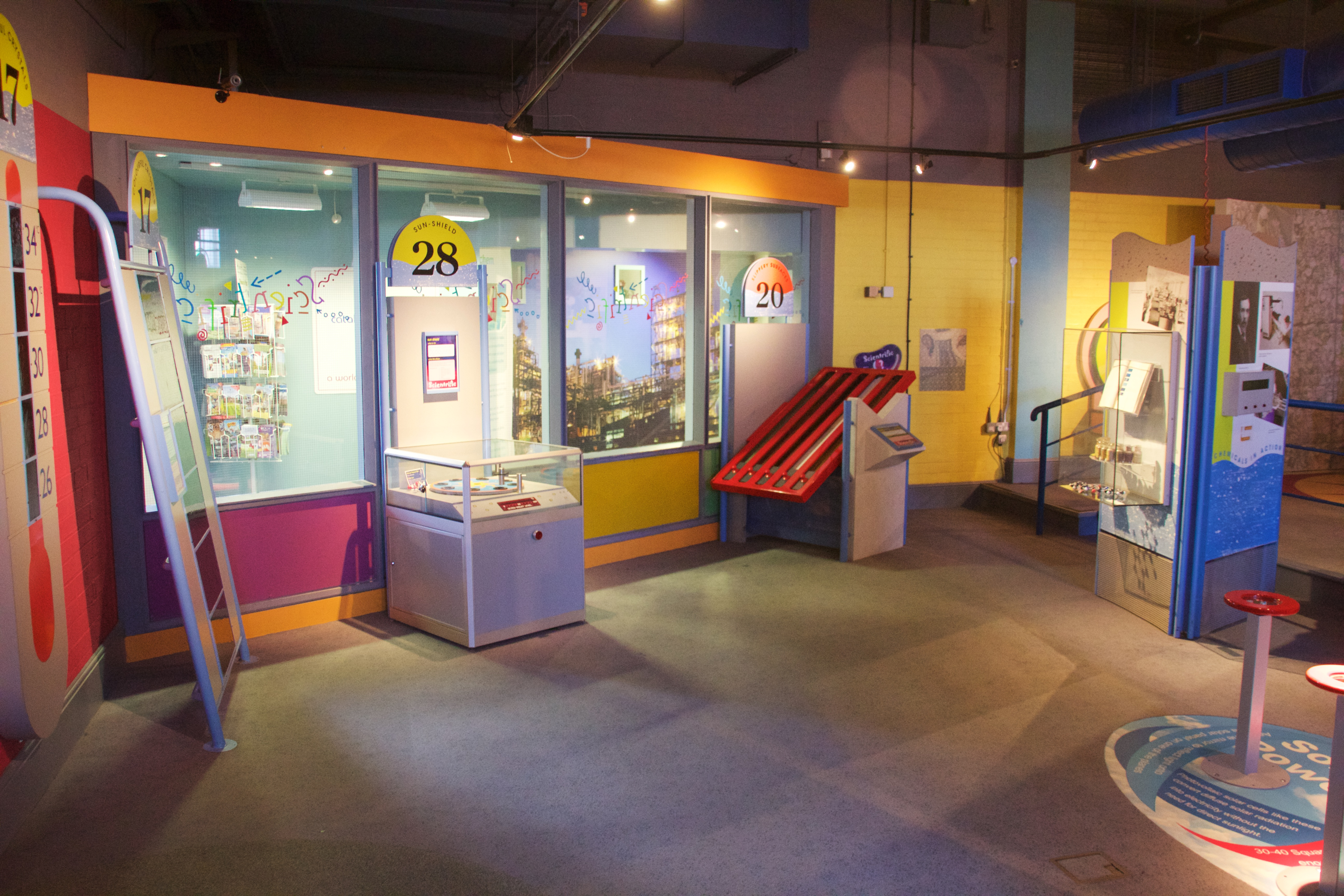 Exhibits at the Catalyst Science Discovery Centre.